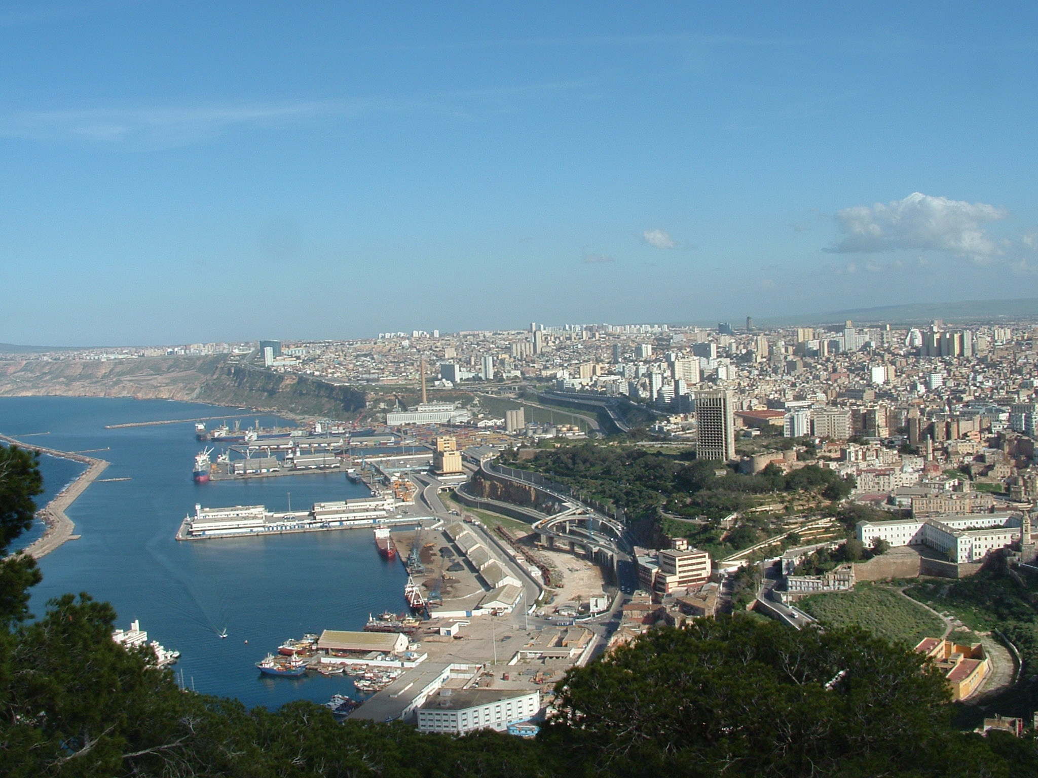 Seaside of Oran, Algeria.